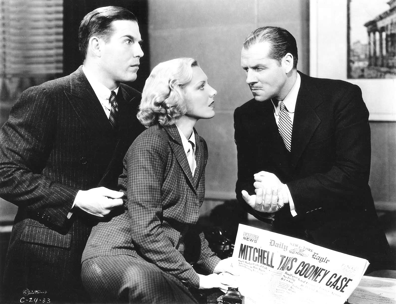 Promotional photo for the 1934 film The Defense Rests Left to right: Nat Pendleton, Jean Arthur, Jack Holt.